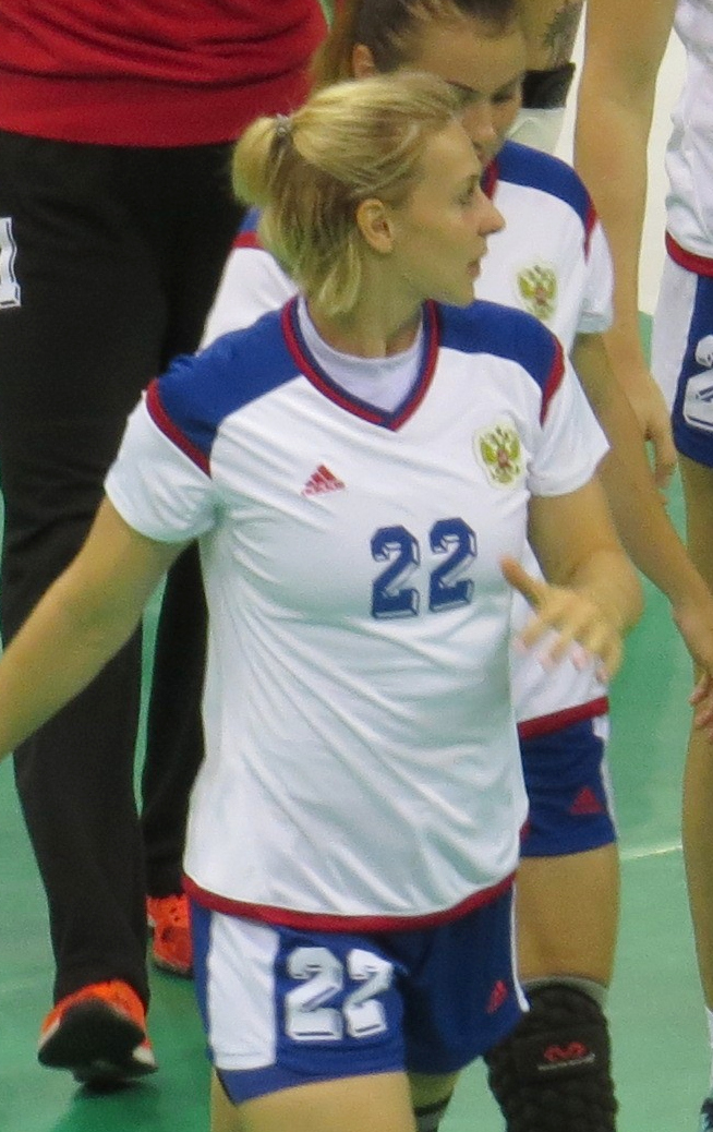 Rio 2016. sx 267. Russia women's national handball team during group B match against France at the 2016 Summer Olympics on August 8.